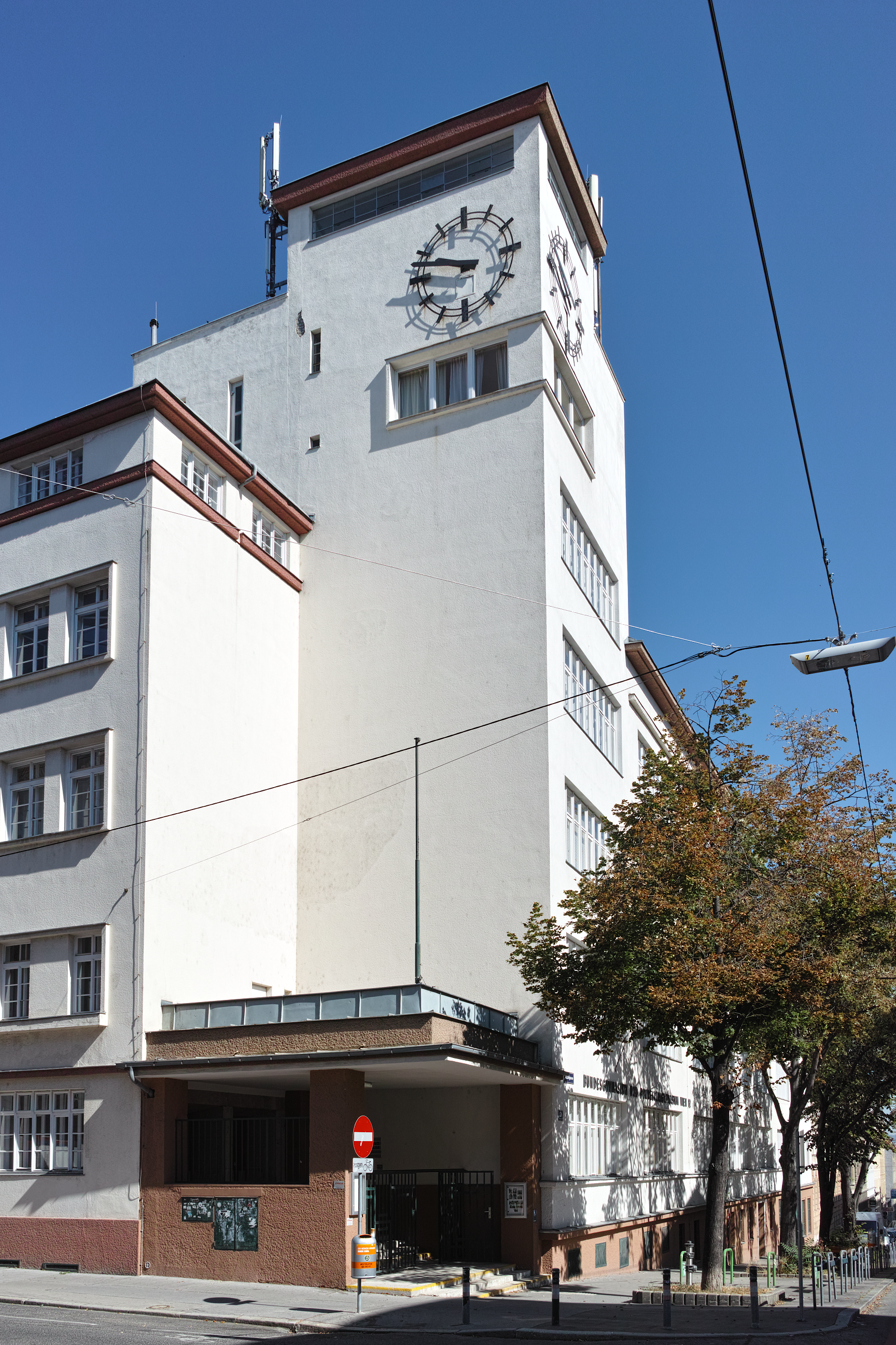 The Highschool in the Erlgasse in Meidling, Vienna from South-southeast on August 2, 2013.